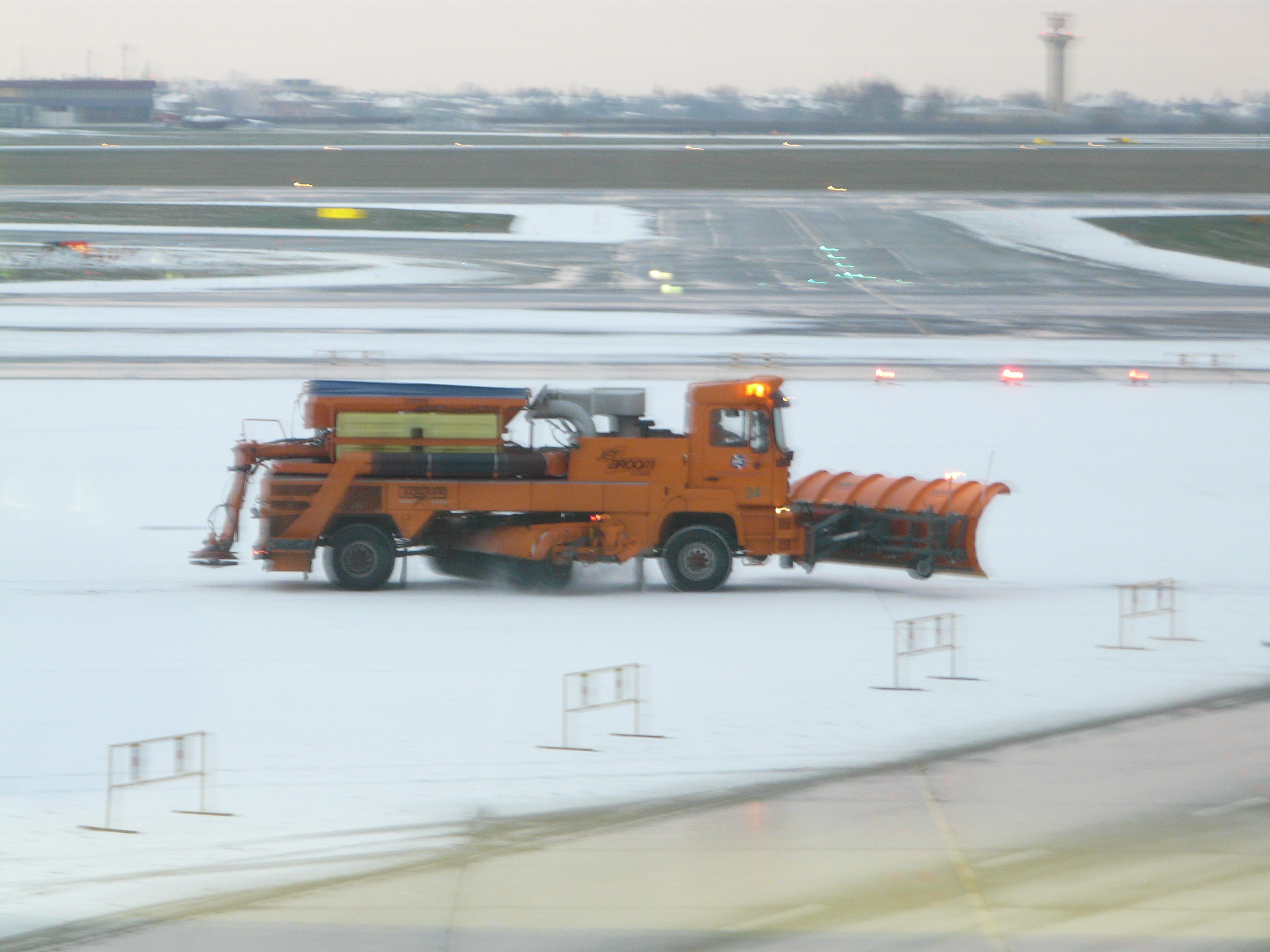 A snow plough at the Warsaw airport based on MAN truck.